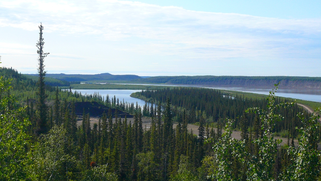 Mackenzie from the east